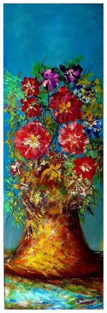 Flower Vase, 2010, Australia, oil on canvas (40cmX120cm) by Alex Mendelssohn.